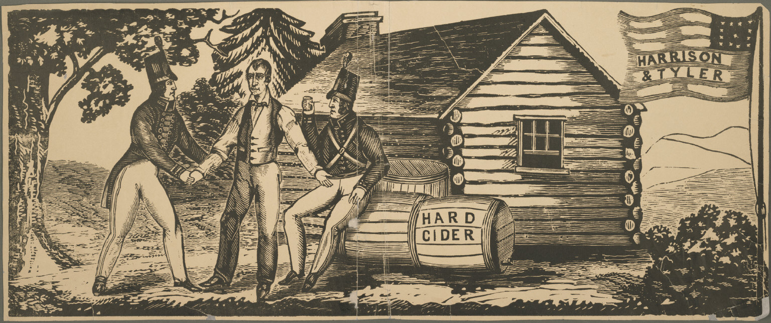 Collection: Cornell University Collection of Political Americana, Cornell University Library Repository: Susan H. Douglas Political Americana Collection, #2214 Rare & Manuscript Collections, Cornell University Library, Cornell University Title: William Henry Harrison and Two Soldiers Political Party: Whig Election Year: 1840 Date Made: ca. 1840 Measurement: Print: 9.25 x 22 in.; 23.495 x 55.88 cm Classification: Prints Persistent URI: There are no known U.S. copyright restrictions on this image. The digital file is owned by the Cornell University Library which is making it freely available with the request that, when possible, the Library be credited as its source.